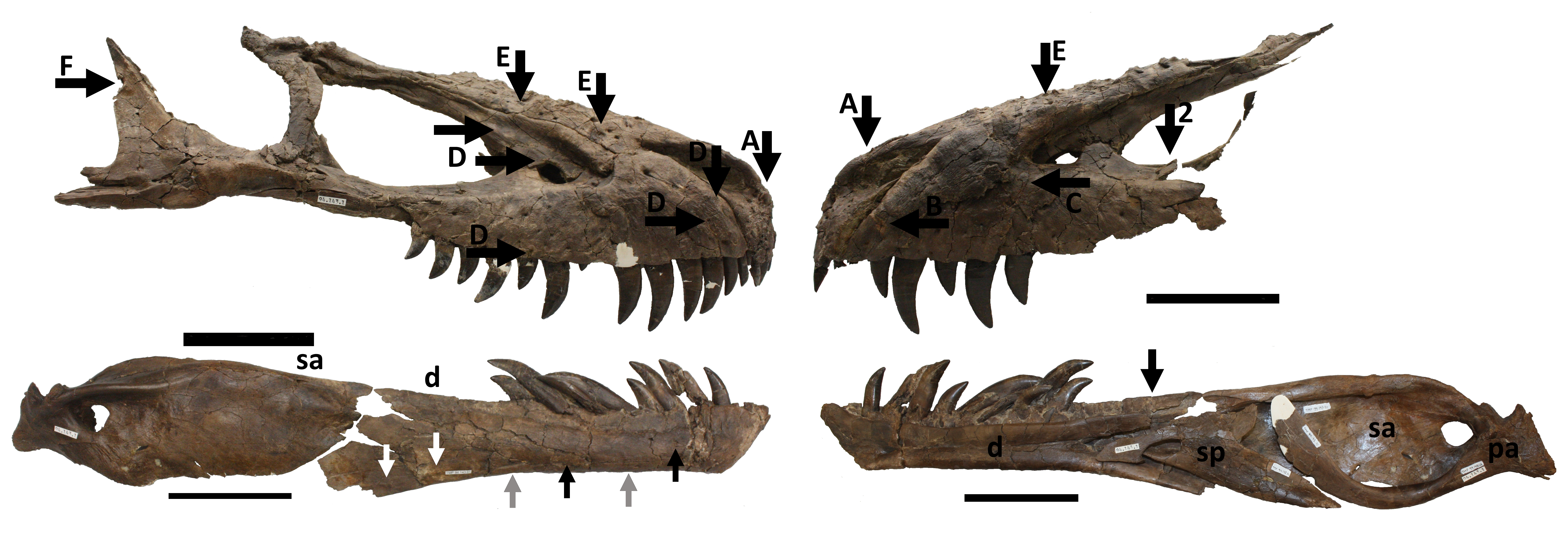 Daspletosaurus sp. skull and mandible (specimen TMP 1994.143.0001 from Dinosaur Provincial Park) in right lateral and left lateral view showing numerous injuries indicated with black arrows and the relevant code letter (see the text for details).